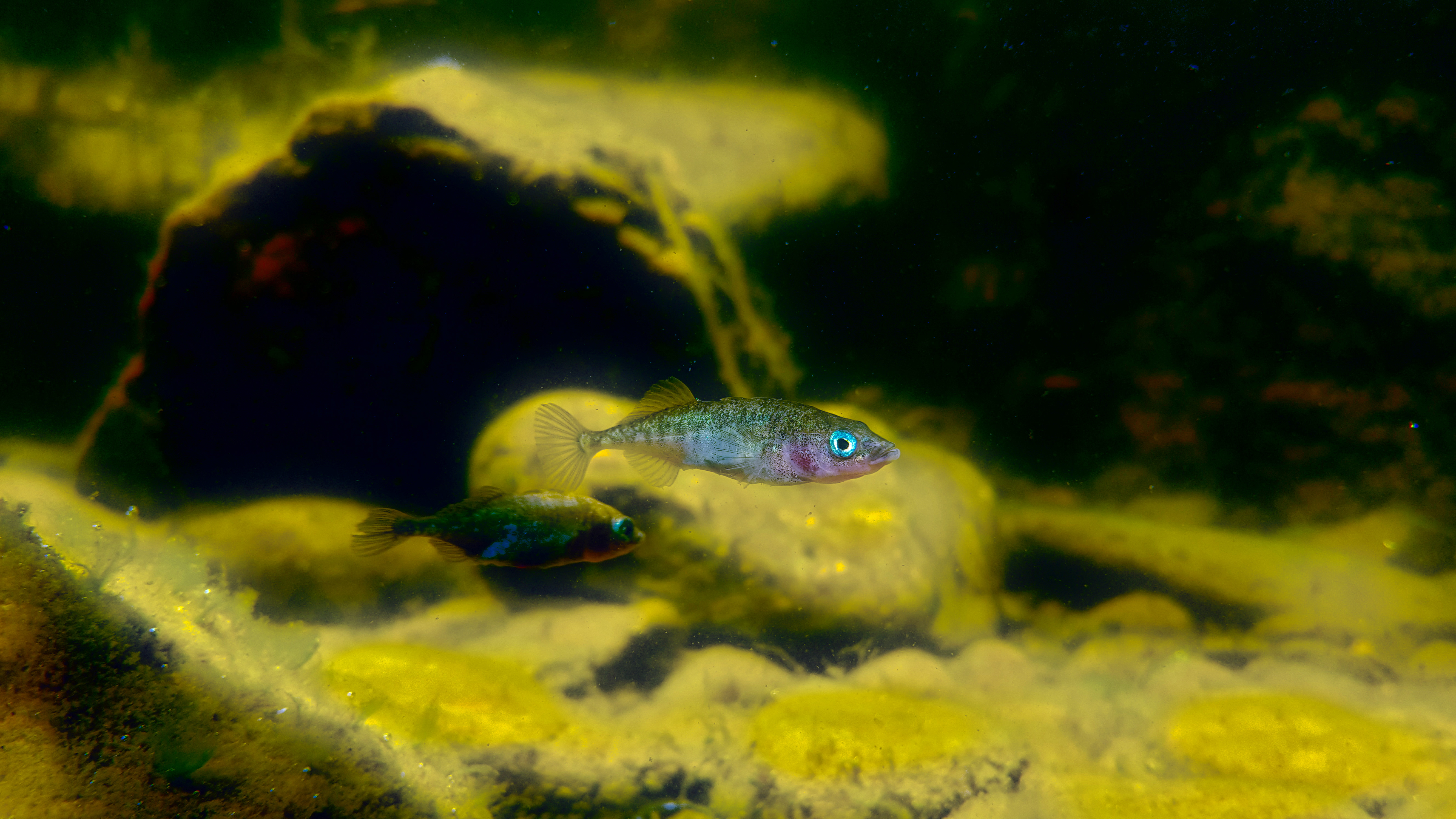 Two Three-spined Stickleback (Gasterosteus aculeatus) at the Palo Alto Junior Museum and Zoo. com